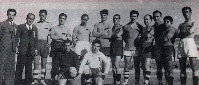 From left to right: Coach Fahmi Rizk-Taha Bayoumi-Mashhour Hamoud-Kazim Alik-Mahmoud Shatila-Mohamed Hatoum-Jamal Khatib-Secretary Atef Sannan-Nihad Nada.Cola from right: Habib Kamouna-Hassan Shatila-Zain Hashim-Ibrahim Fakih- Yousef Al Ghoul